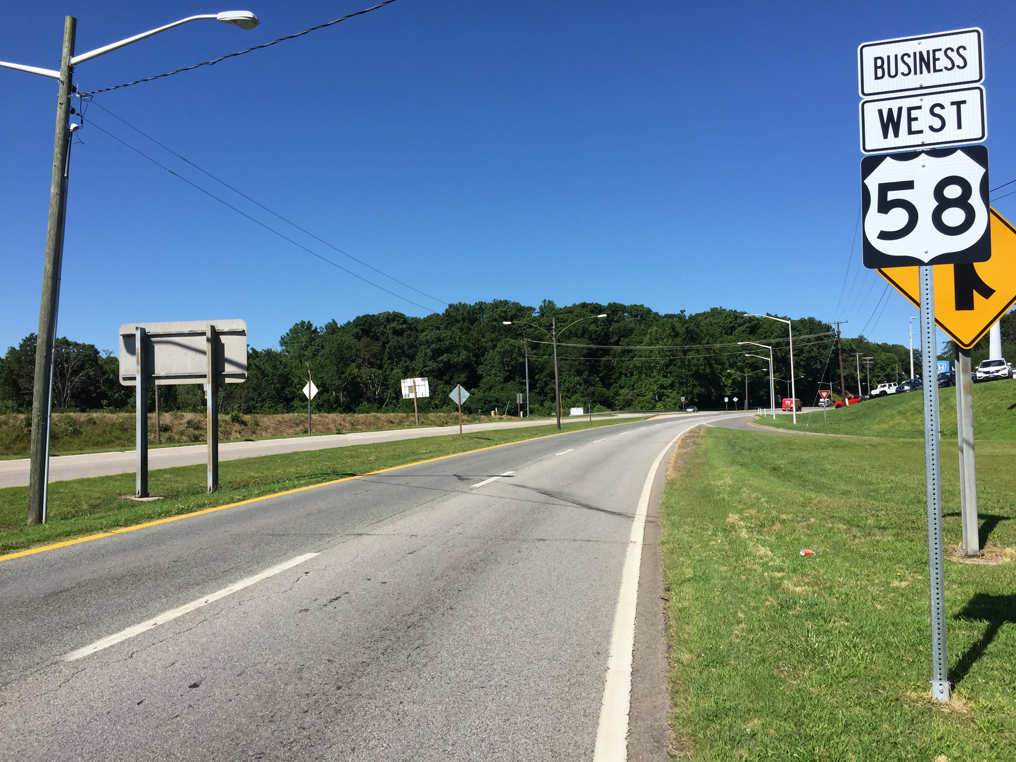 View west along U.S. Route 58 Business (Riverside Drive) at Piedmont Drive in Danville, Virginia